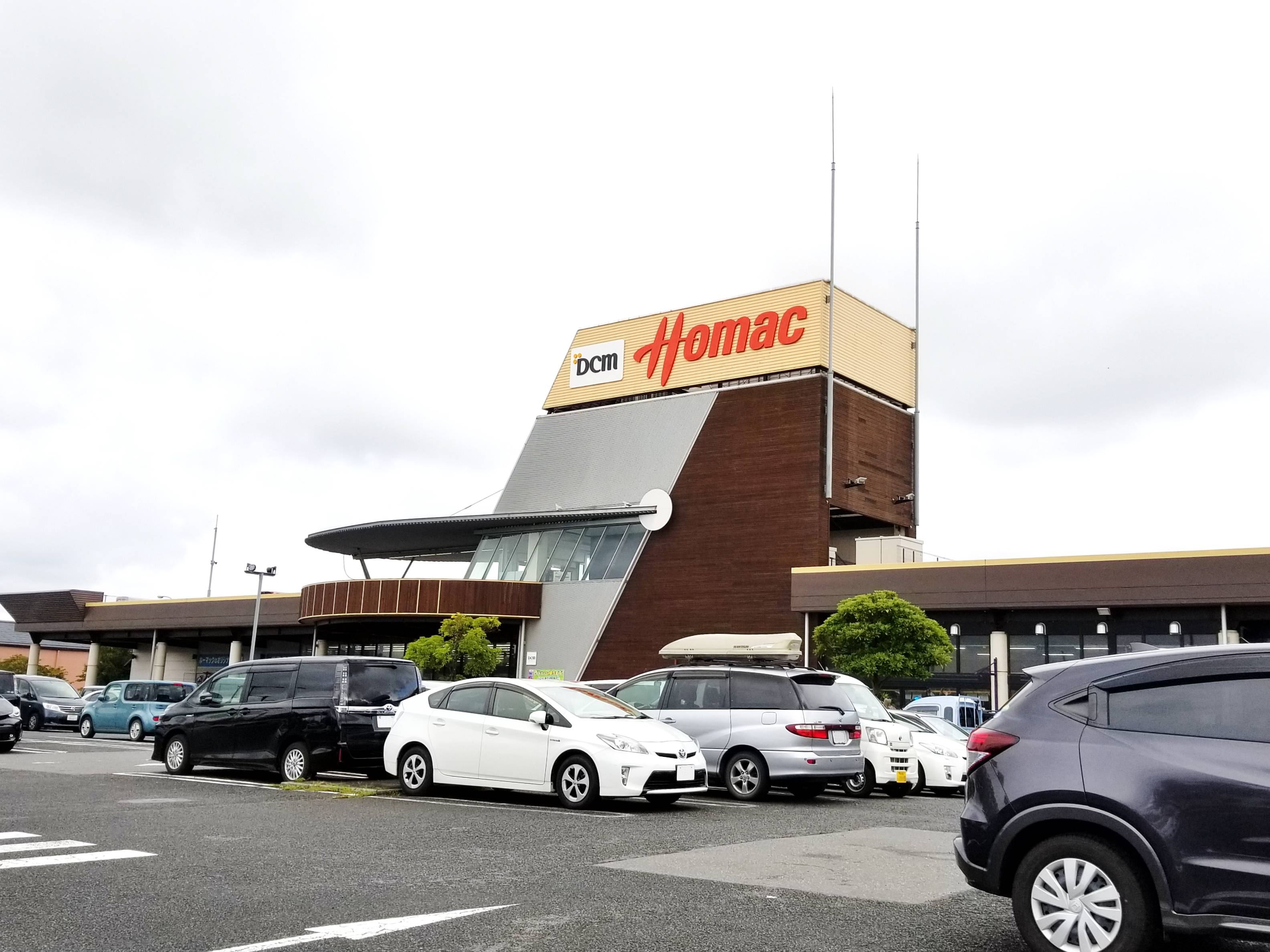 DCM Homac Noda-Mizuki store (Noda, Chiba).